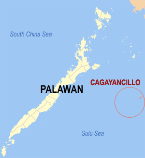 Map of Palawan showing the location of Cagayancillo